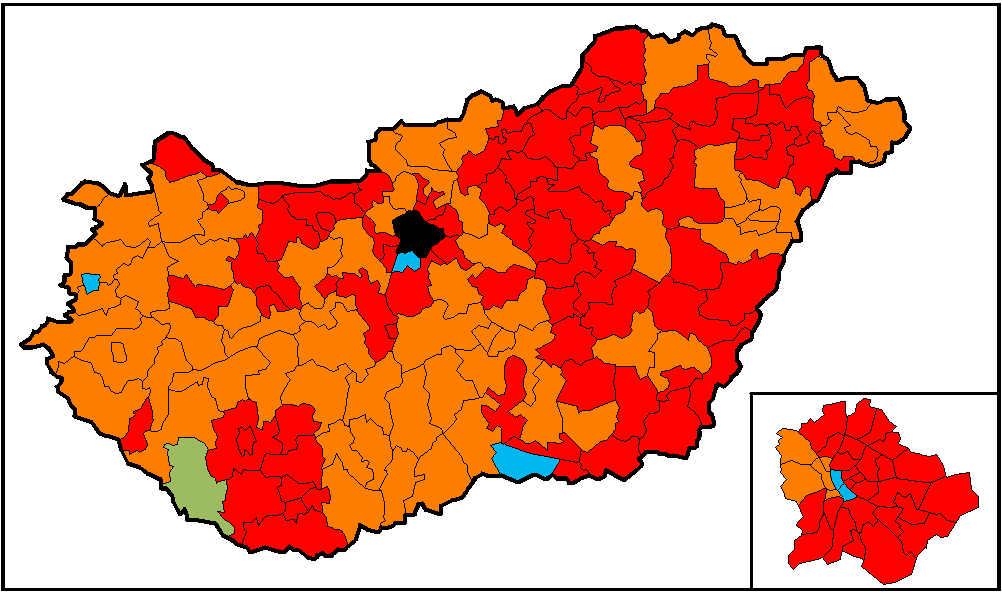 Election Results, Hungary 2006 ██ = Fidesz ██ = Hungarian Socialist Party ██ = Alliance of Free Democrats ██ = Union for Somogy